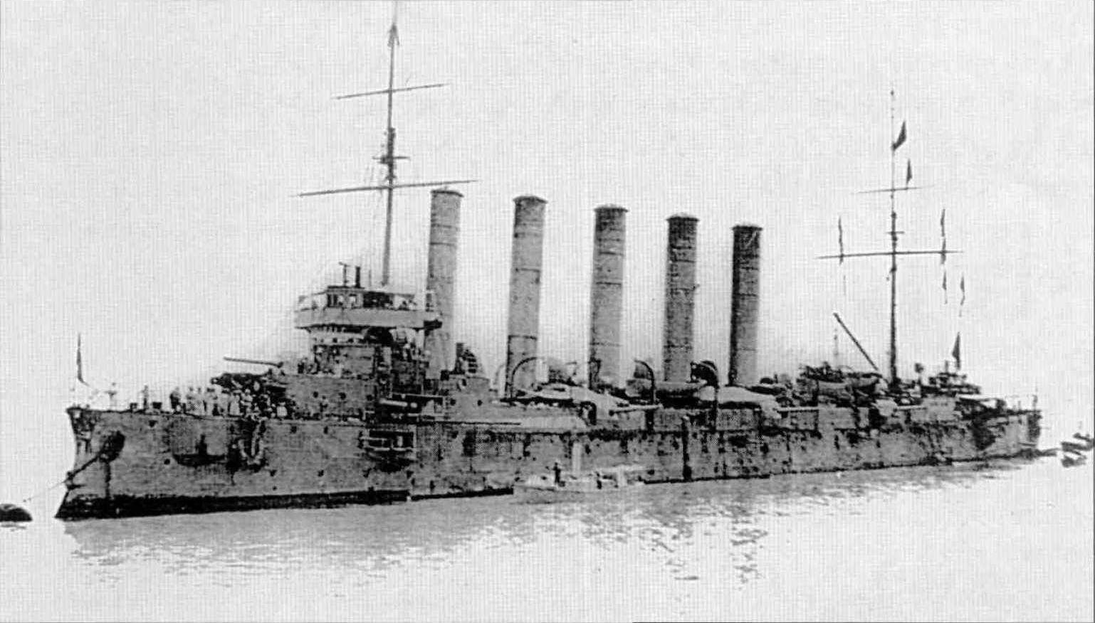 Imperial Russian cruiser Askol'd at the Mediterranean Sea.